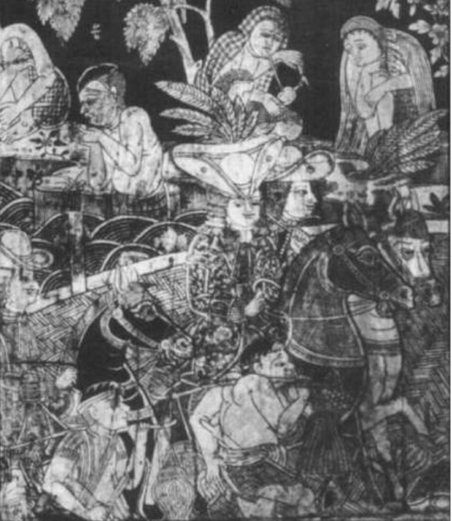 French soldiers in Siam 17th century. Gold-on-Laquer ("Lai Rot Nam") painting in Lacquer Pavillon of Suan Pakkad Palace, Bangkok